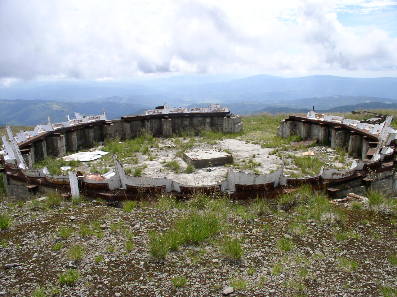 Ruins of radar station on Stoy Mountain, Ukraine. Before 1995 used by Soviet and Ukrainian Army.